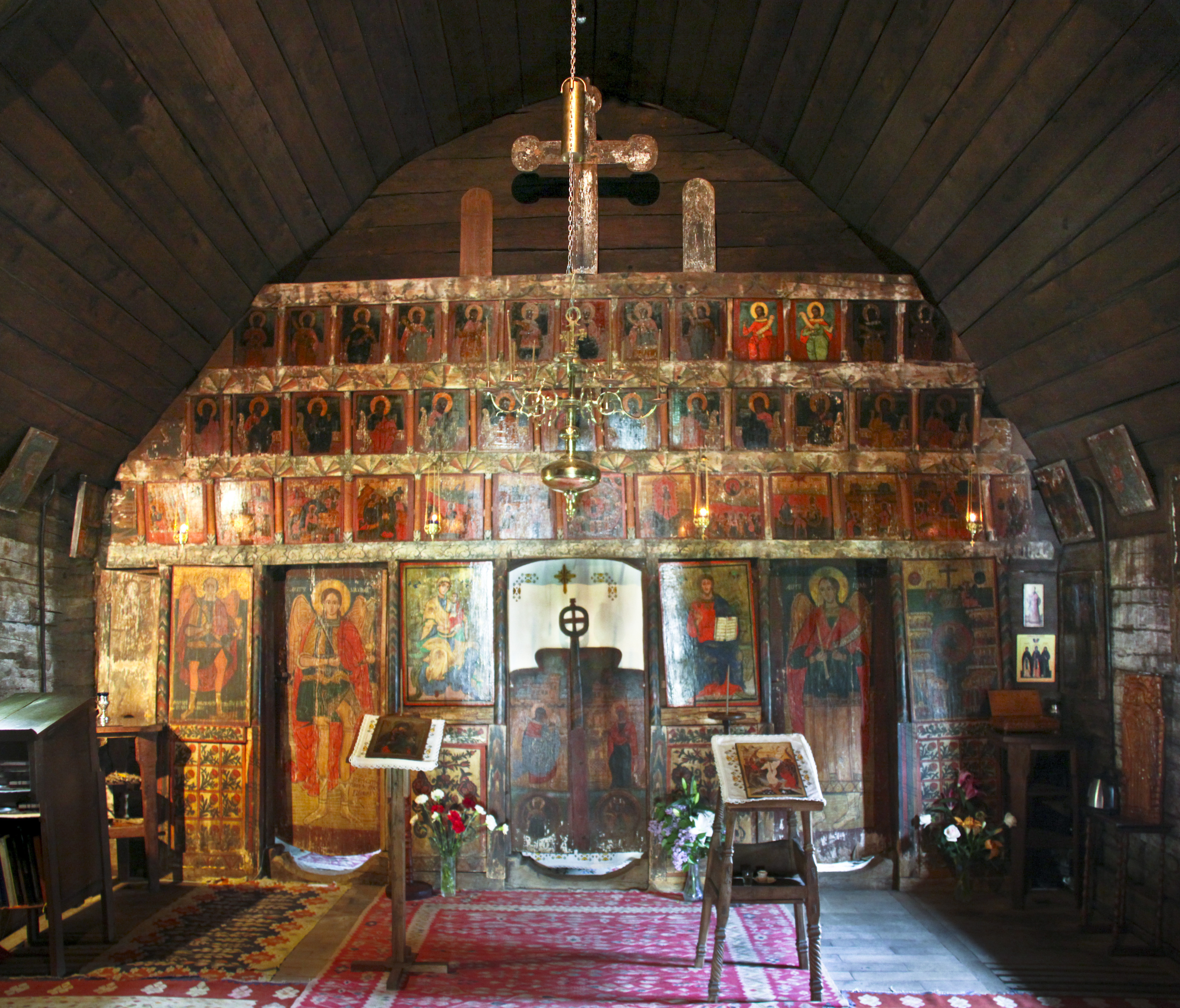 Craiova, Dolj county, Romania, the wooden church at the Mitropolitan seat, brought from Gorj county: the nave icon screen.